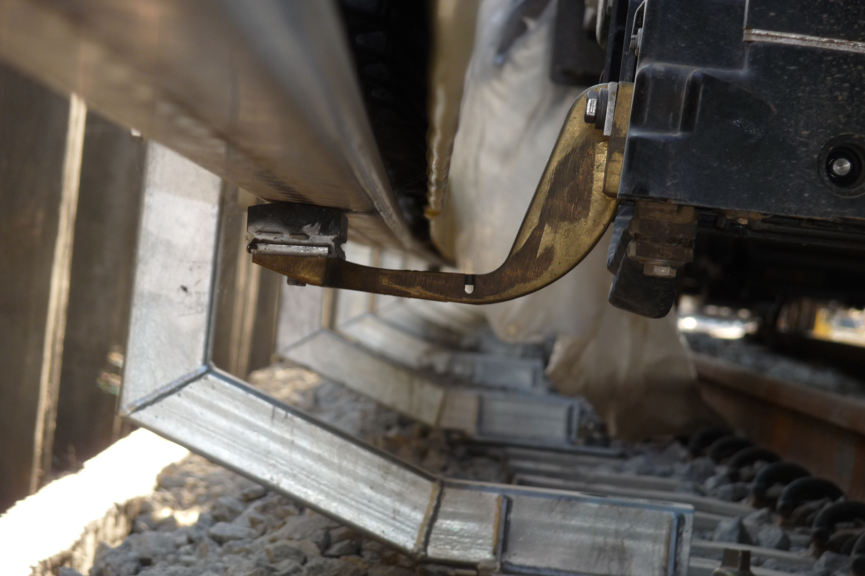 Train current collector shoe in contact on composite third rail (aluminium / stainless steel) - Bangalore Metro / INDIA